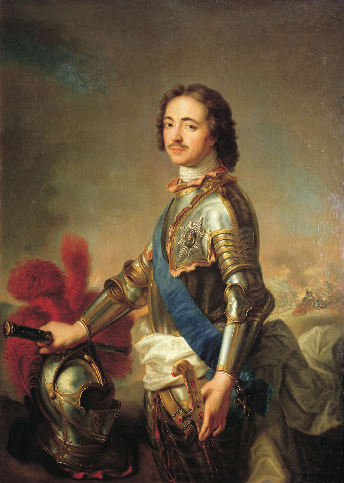 Portrait of Peter I of Russia (1672-1725)